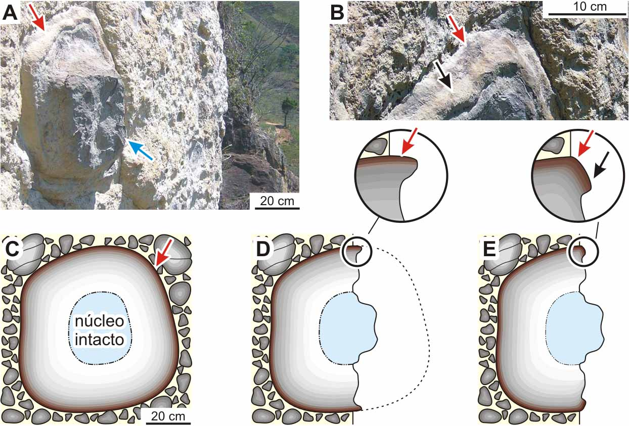 Weathed large trachyte clast in volcanic agglomerate at Klein-Klippe, Nova Iguaçu, Brazil